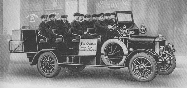 The first Guy passenger vehicle. It was produced in 1914 and was built to operate a combined mail and passenger service between Achnasheen and Aultbea in the Scottish Highlands.